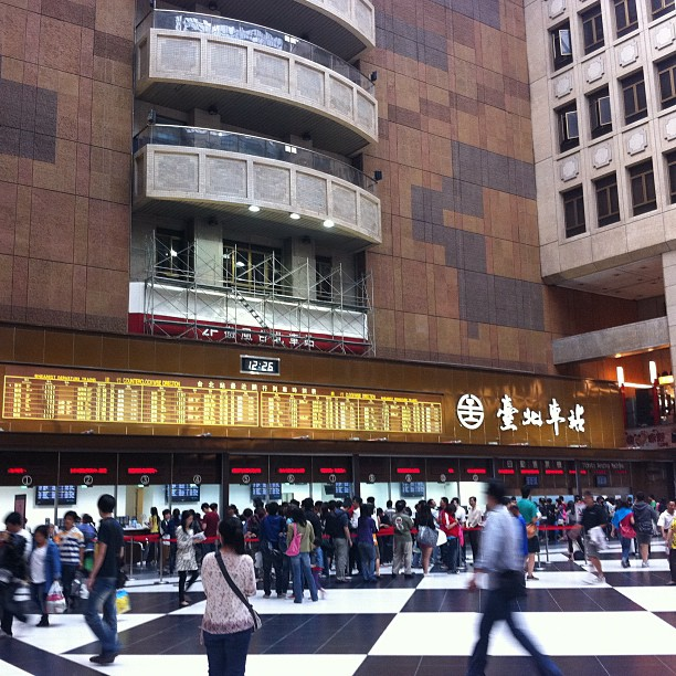 A split-flap display and ticket windows in Ticketing Hall, Taipei Station, Taiwan Railway Administration.